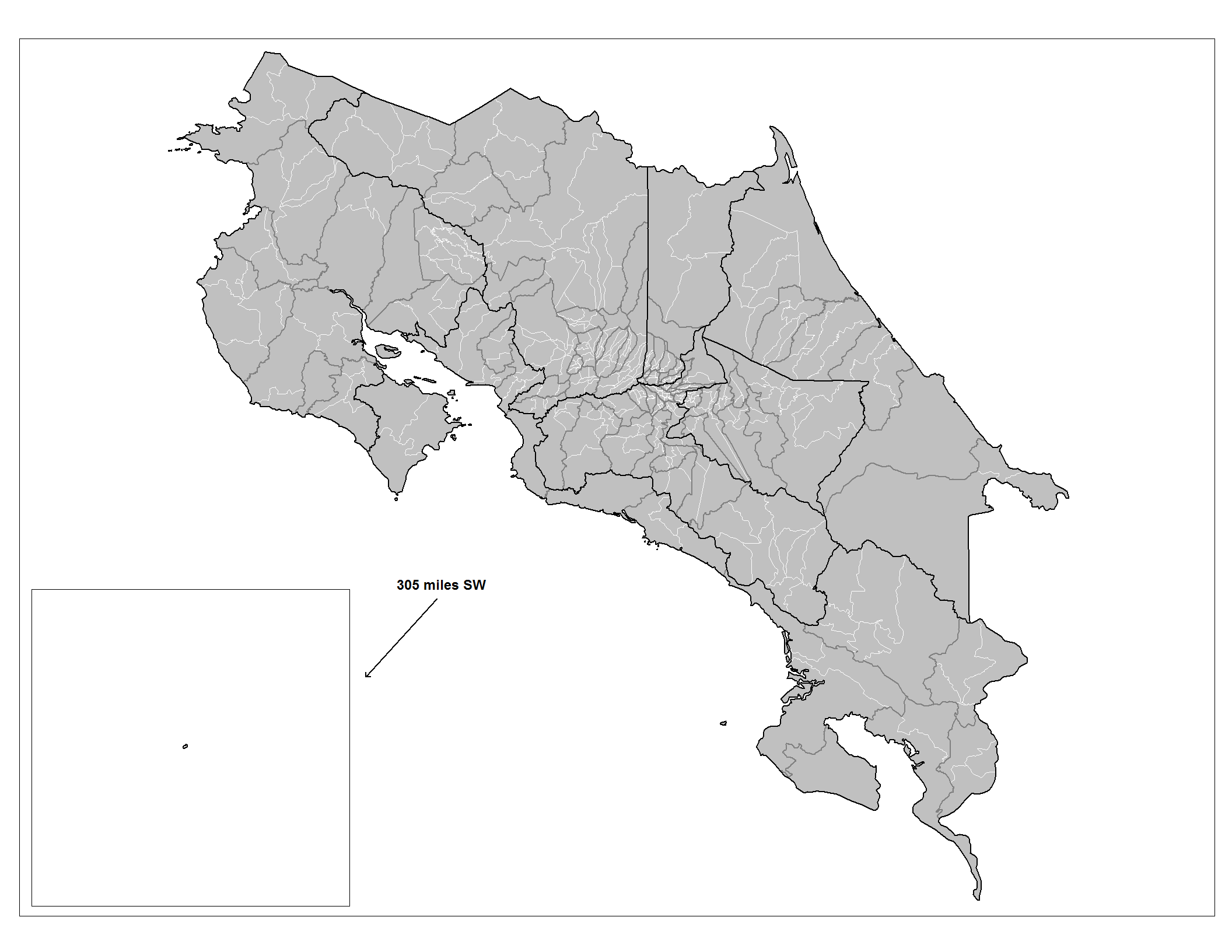 Map of the districts (distritos) of Costa Rica.